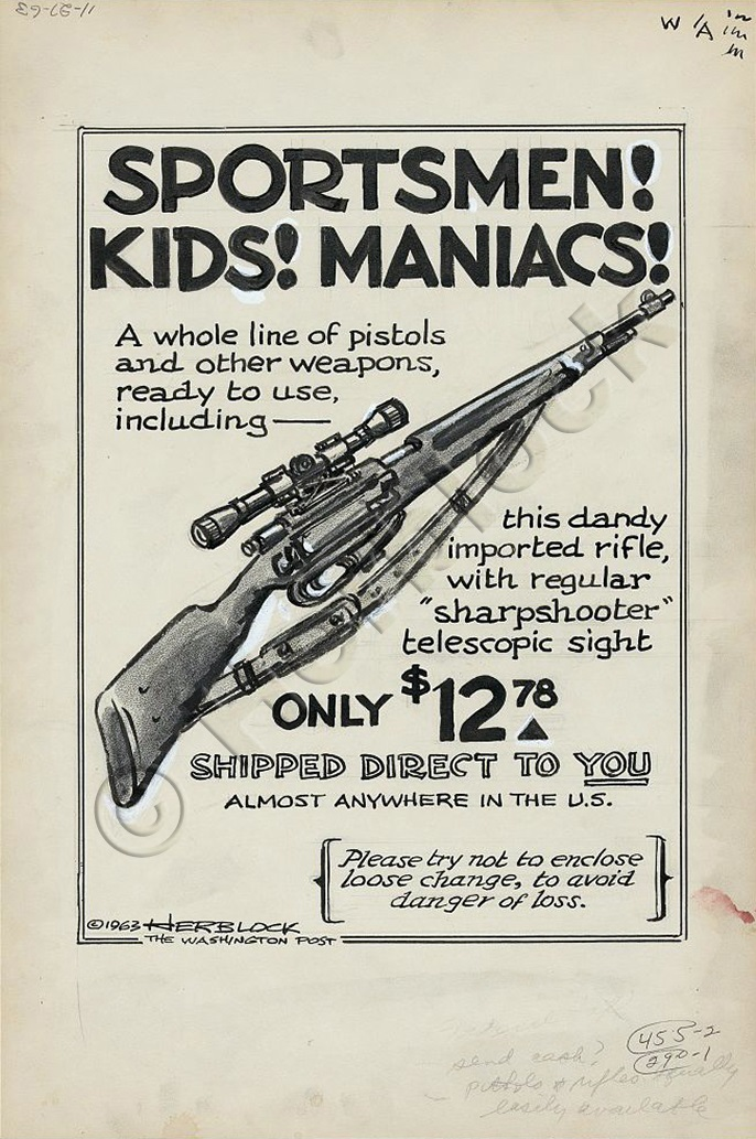 Very shortly after the assassination of President John F. Kennedy on November 22, 1963, this cartoon was published with an editorial strongly lamenting the availability of guns. By depicting the actual “instrument of assassination” in his meticulous transformation of a typical ad for guns, Herblock angrily condemns what he perceives as the dangerous ease with which too many kinds of people, including maniacs and assassins, can obtain guns cheaply and use them to wreak enormous tragedy. Sportsmen! Kids! Maniacs! 1963. Graphite, ink, and opaque white over graphite underdrawing. Published in the Washington Post, November 27, 1963. Prints and Photographs Division, Library of Congress (78.00.00). LC-DIG-ppmsca-21974